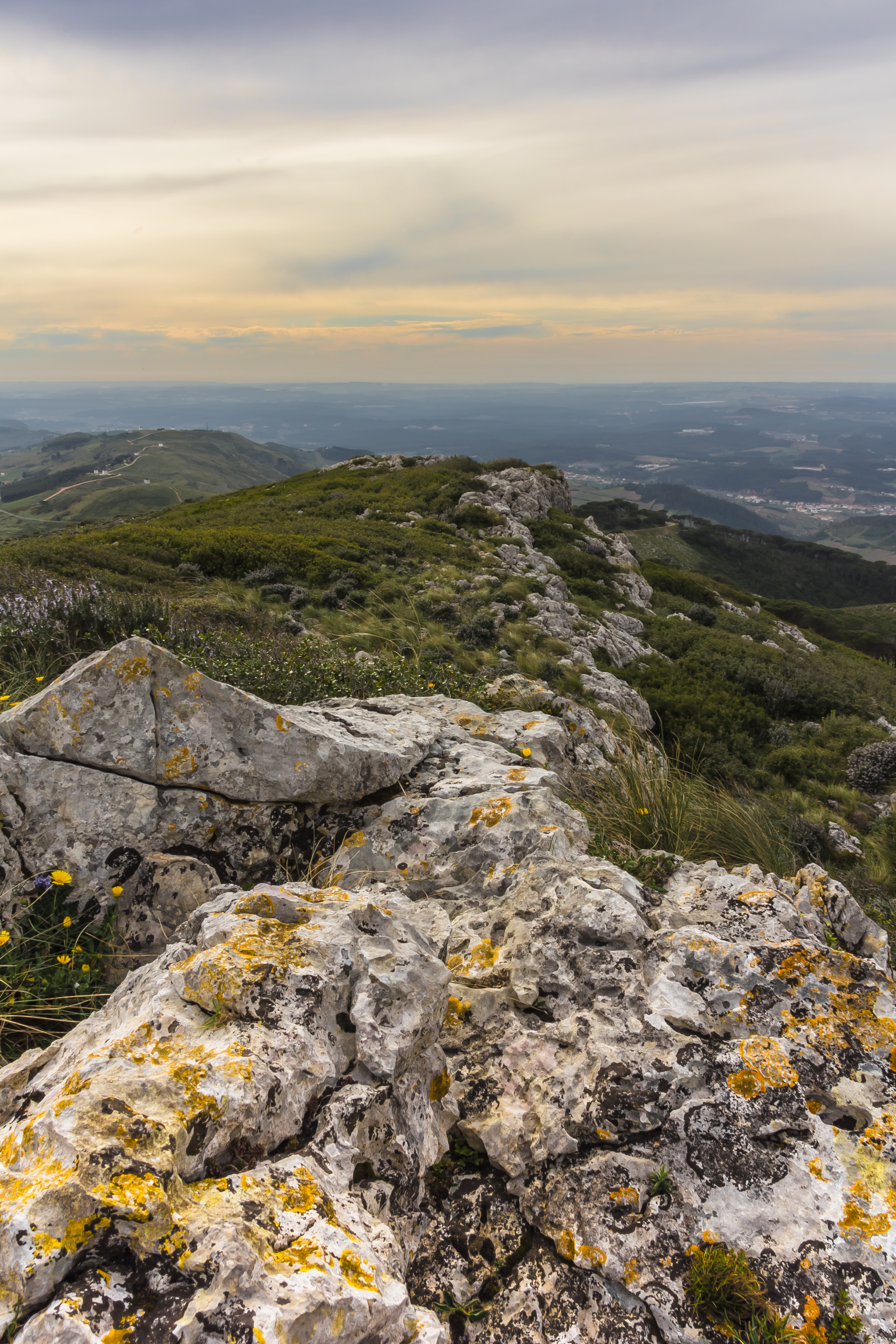 Serra de Montejunto (protected landscape) in Lisbon District, Portugal. This is a photography of a Site of Community Importance in Portugal with the ID: PTCON0048. Natura2000 entry, EEA entry